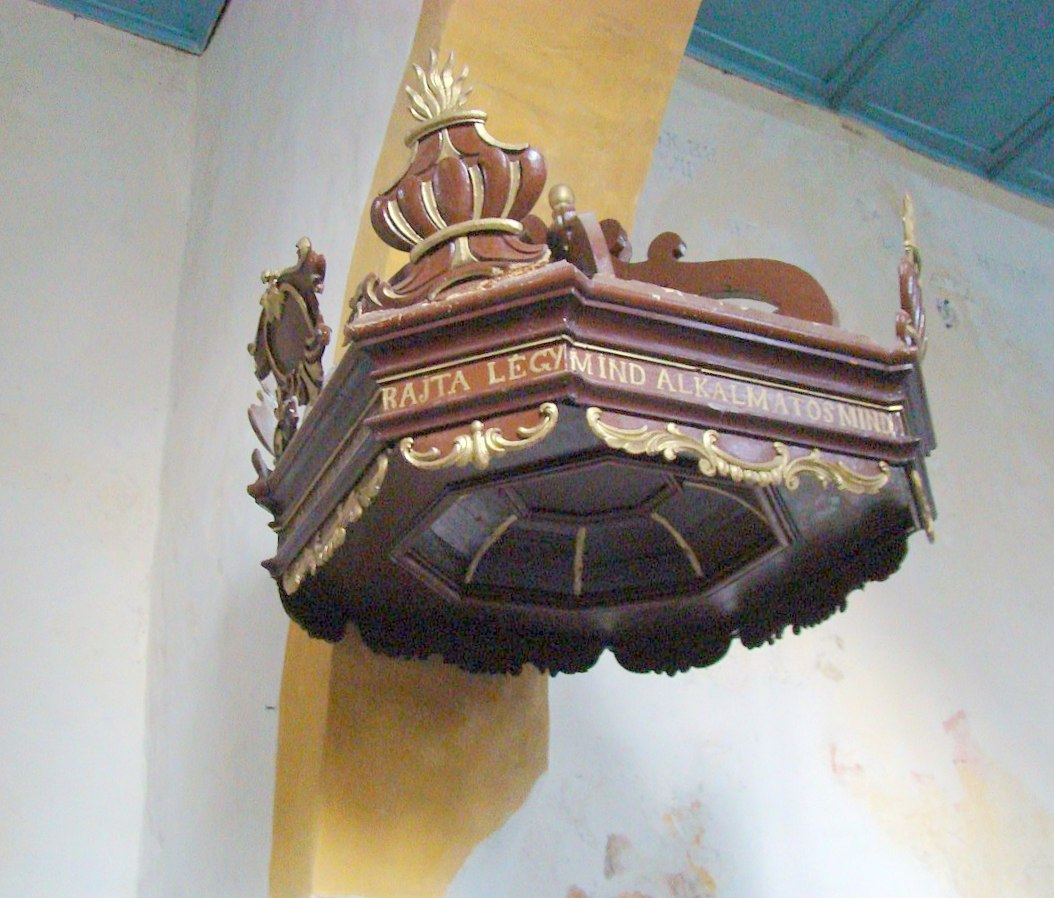 Varolea Reformed church in Gogan, Mureș County, Romania